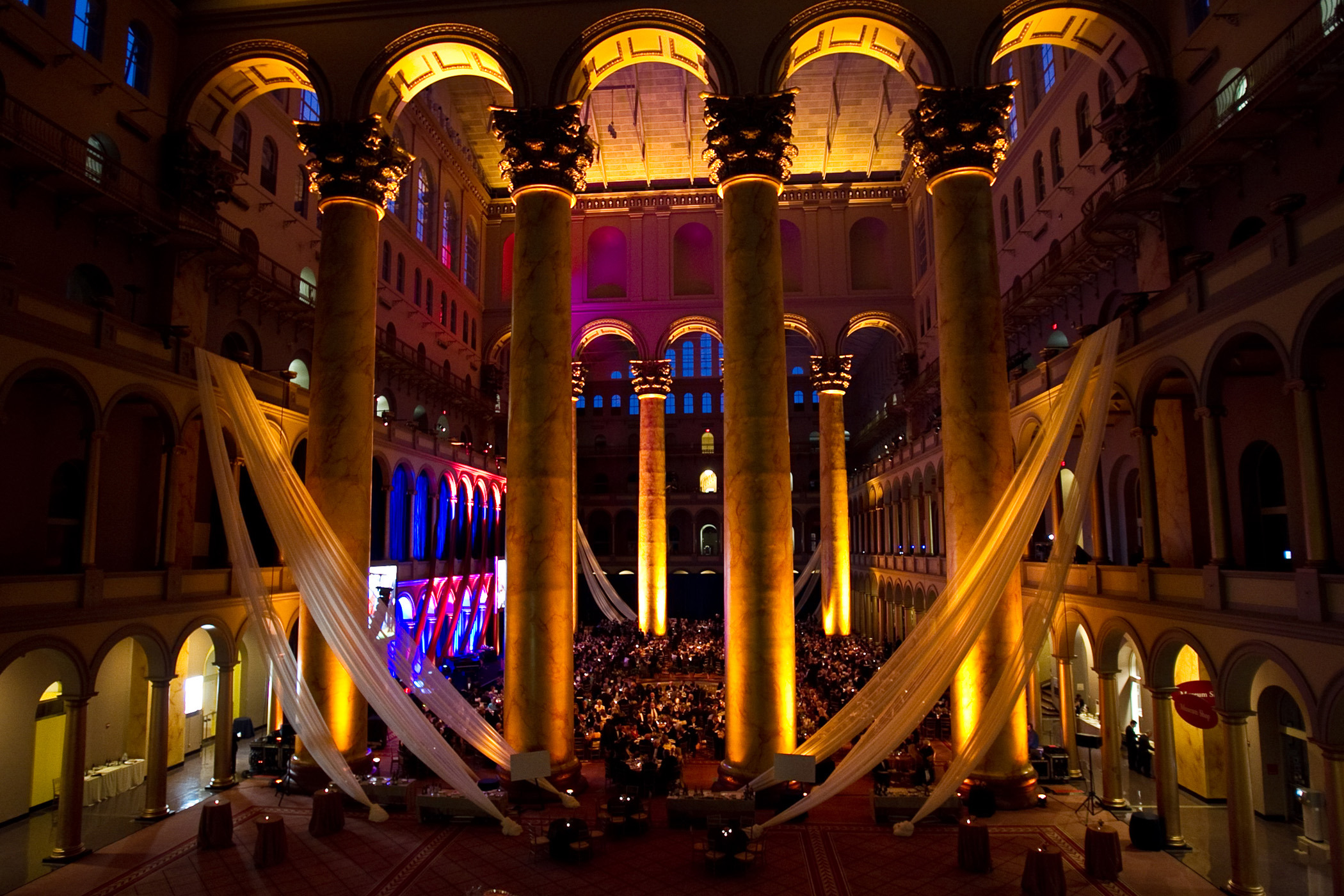 The National Building Museum's Great Hall decorated for the 2010 Honor Award ceremony.